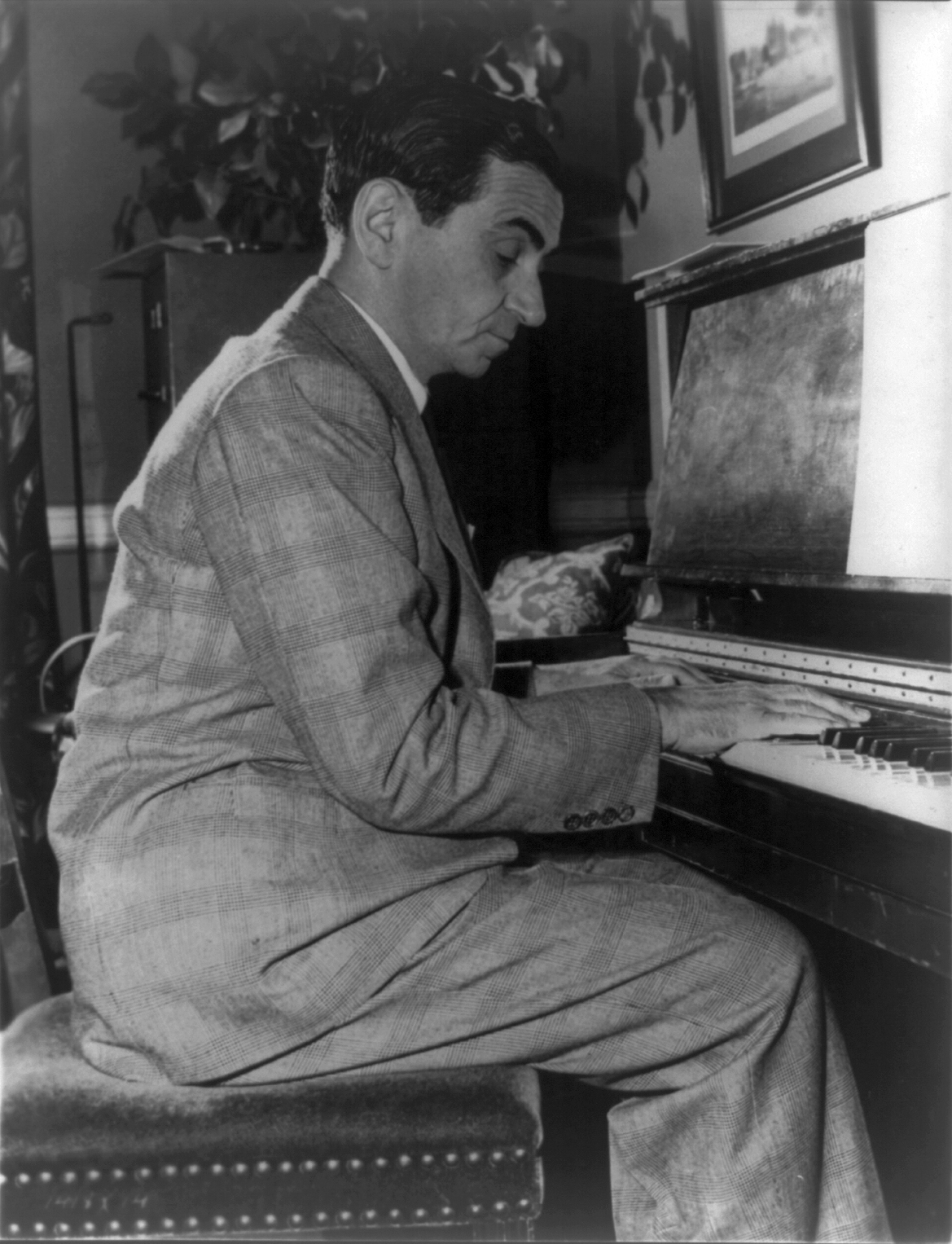 Jewish immigrant Irving Berlin, pictured in 1948. Portrait, seated at piano, profile, facing right. Gift of Irving Lowens, 1966.